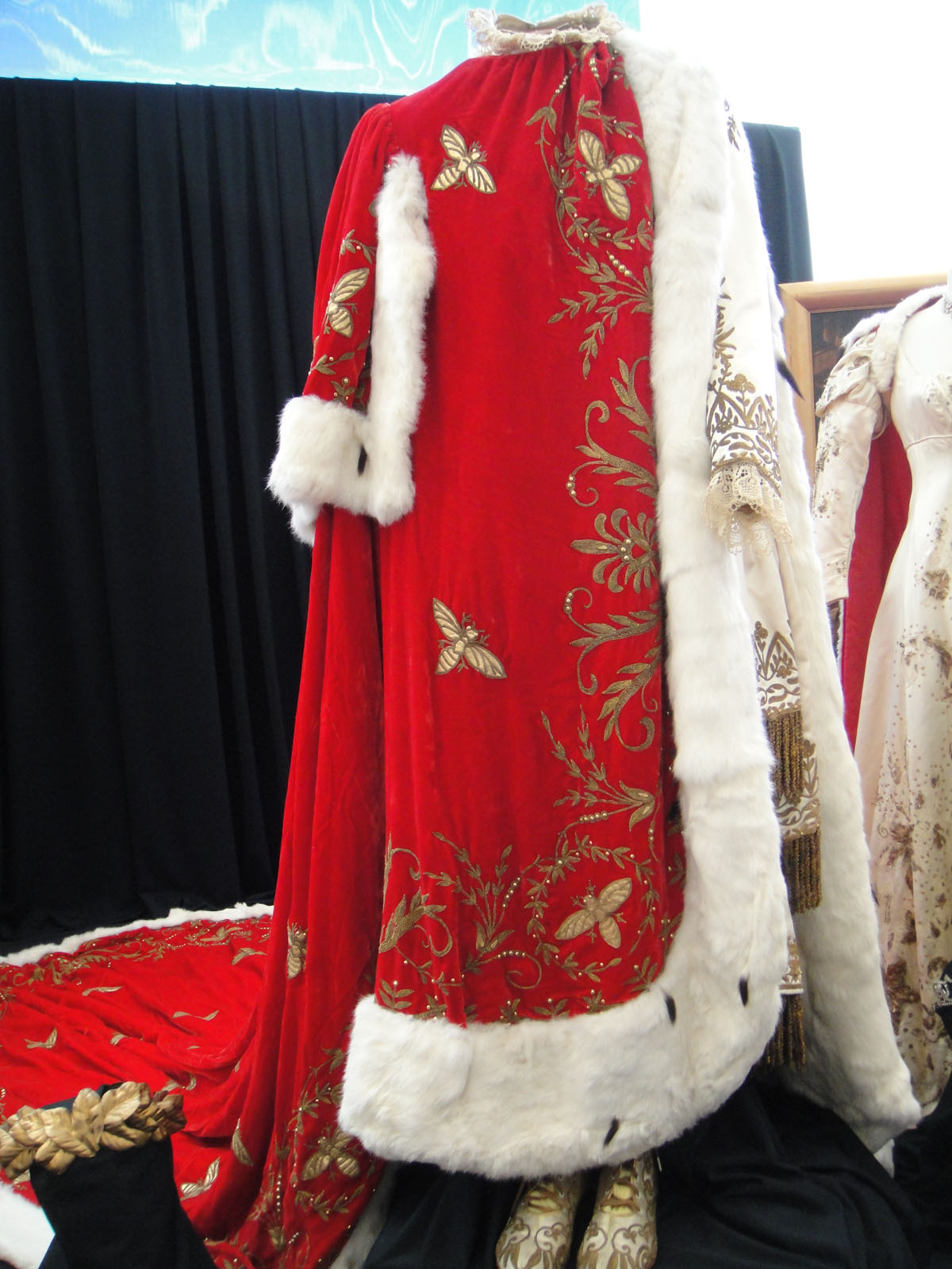 Marlon Brando "Napoleon Bonaparte" coronation costume from "Désirée" at the Debbie Reynolds Auction Breaks Up Historic Hollywood Collection (The Paley Center for Media in Beverly Hills, Los Angeles, CA, USA).